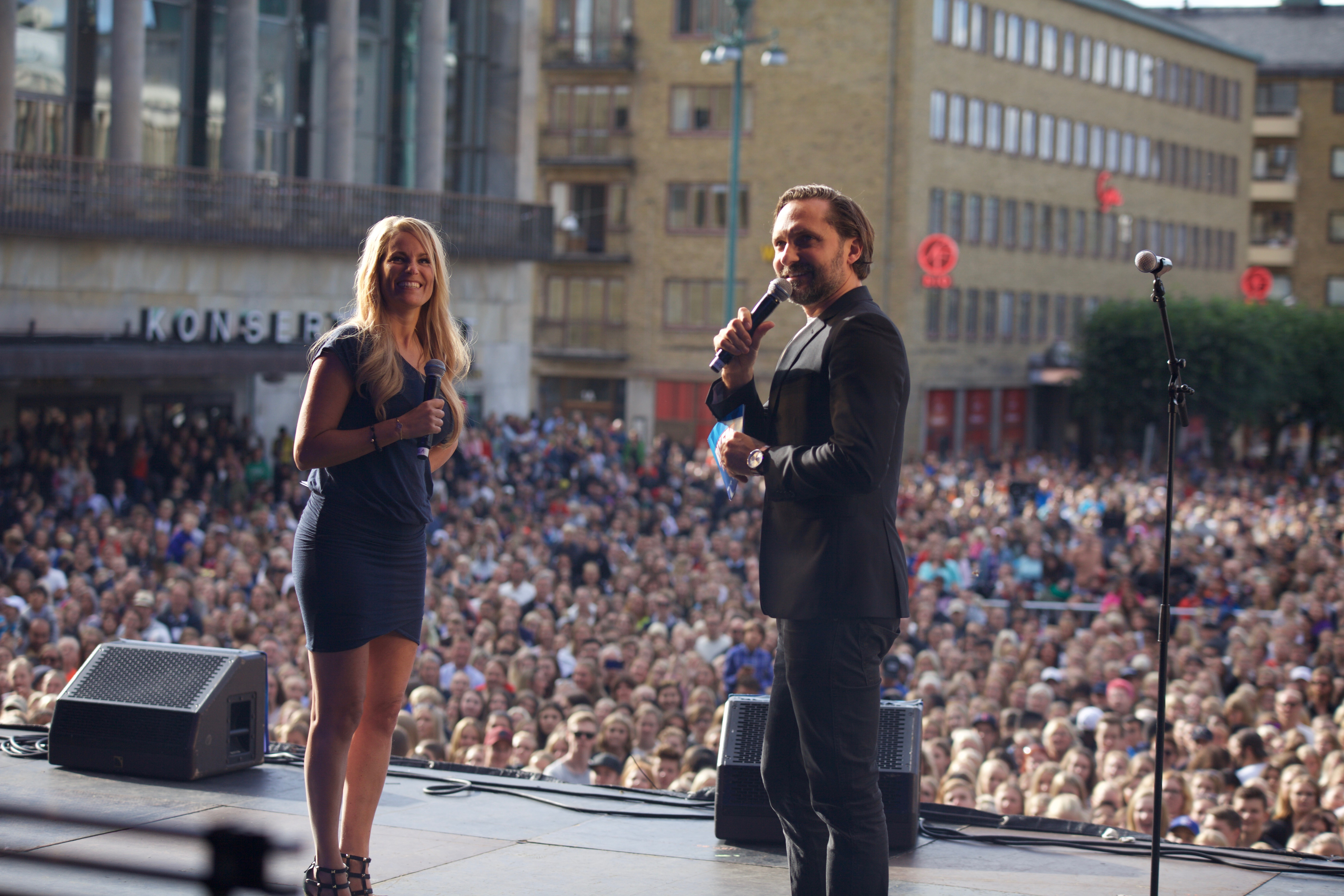 RIX FM Festival in Gothenburg 2017